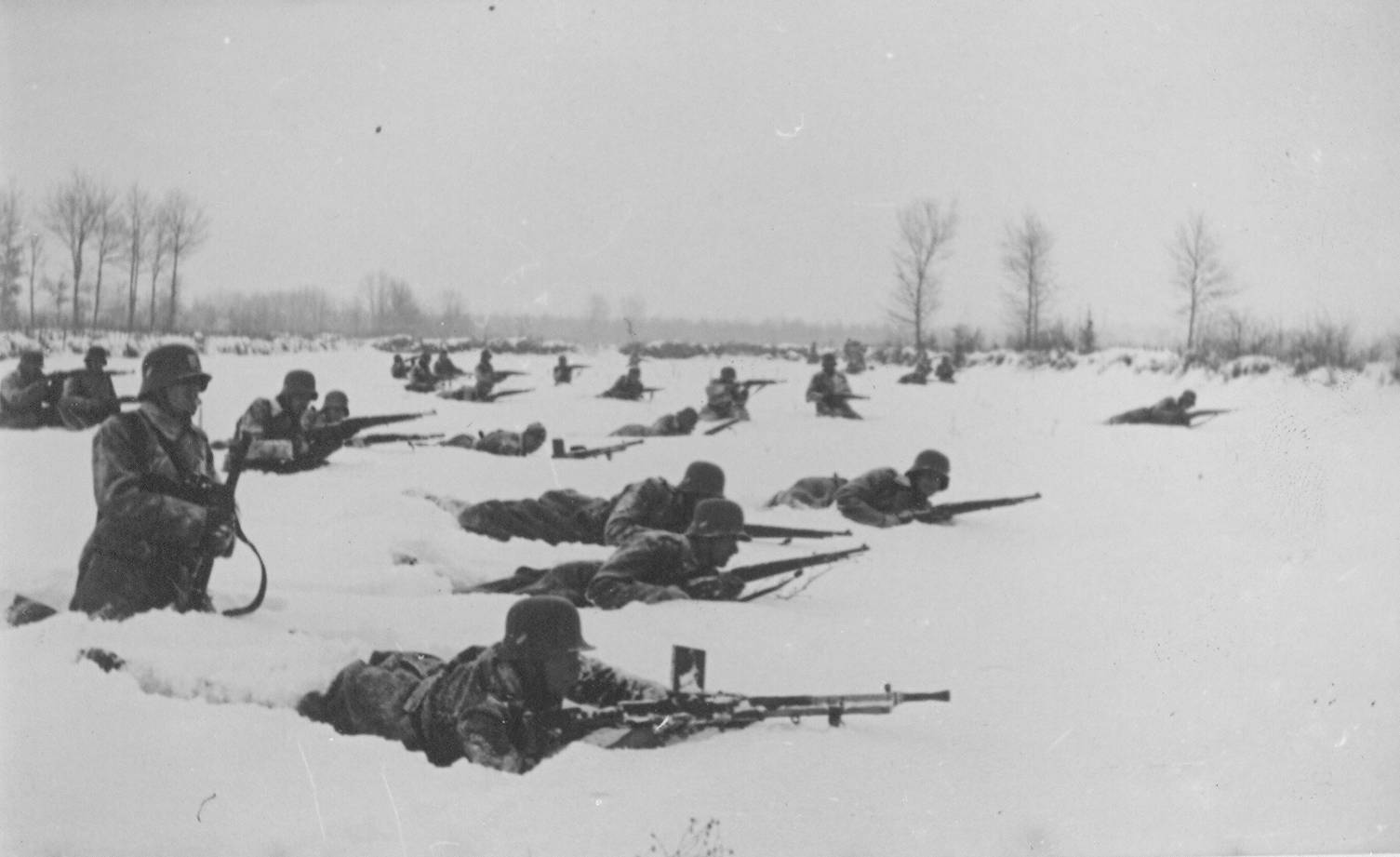 Germans fighting Partisans in Lika.